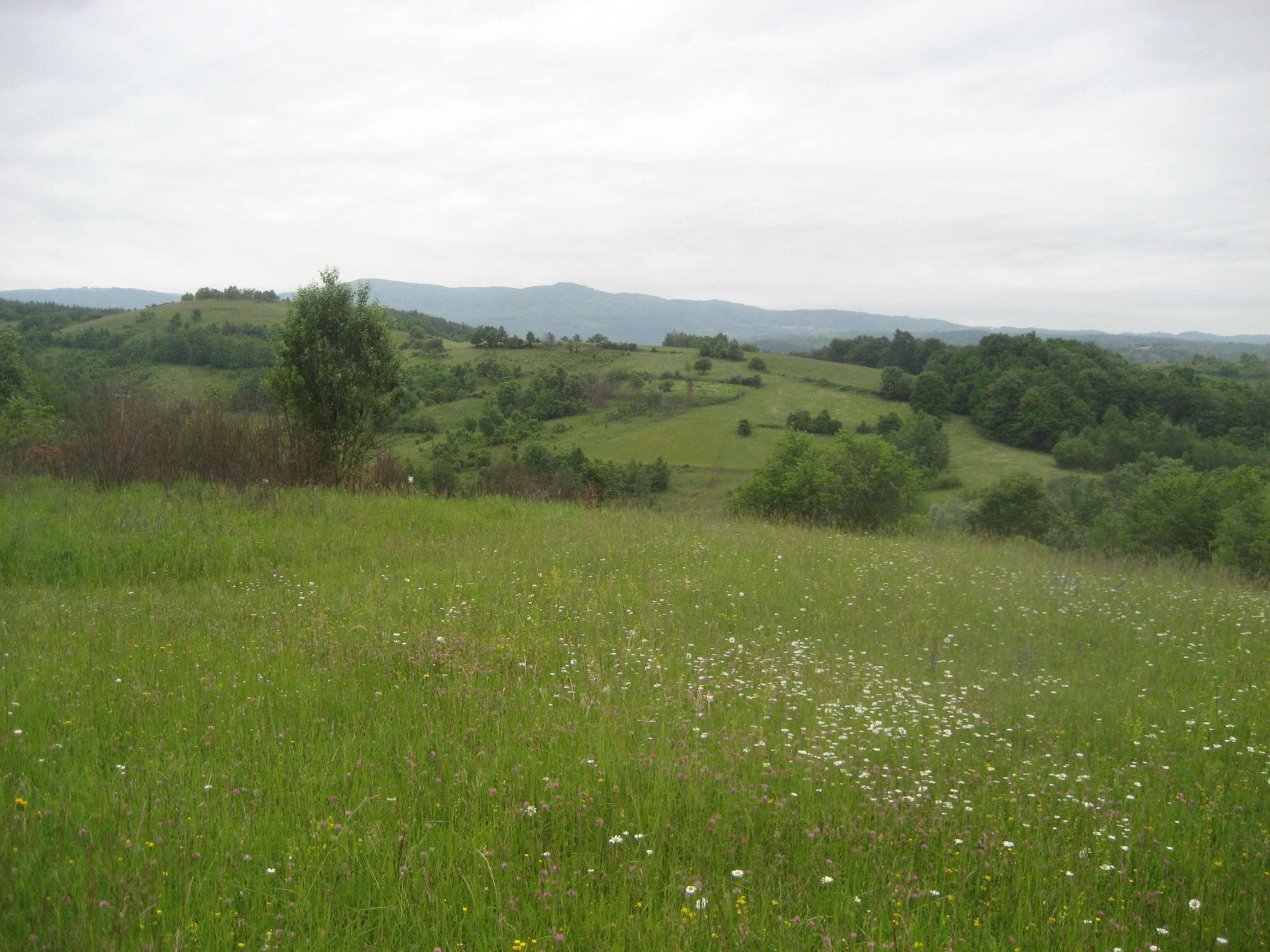 Landscape of Zumberak, Croatia